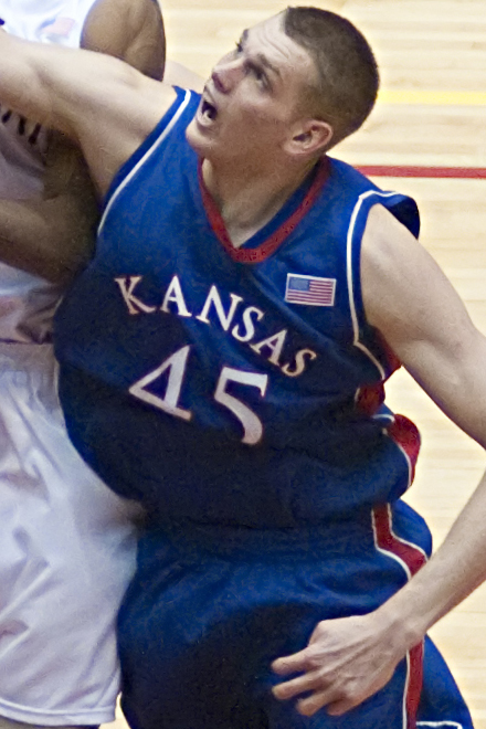 Kansas Jayhawks player Cole Aldrich against Iowa State. This file has been extracted from another file: CraigBrackensLayup.jpg